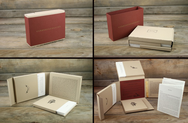 Ben Greenman (novelist born 1969): handmade and letterpress-printed limited edition book Correspondences, 2008.